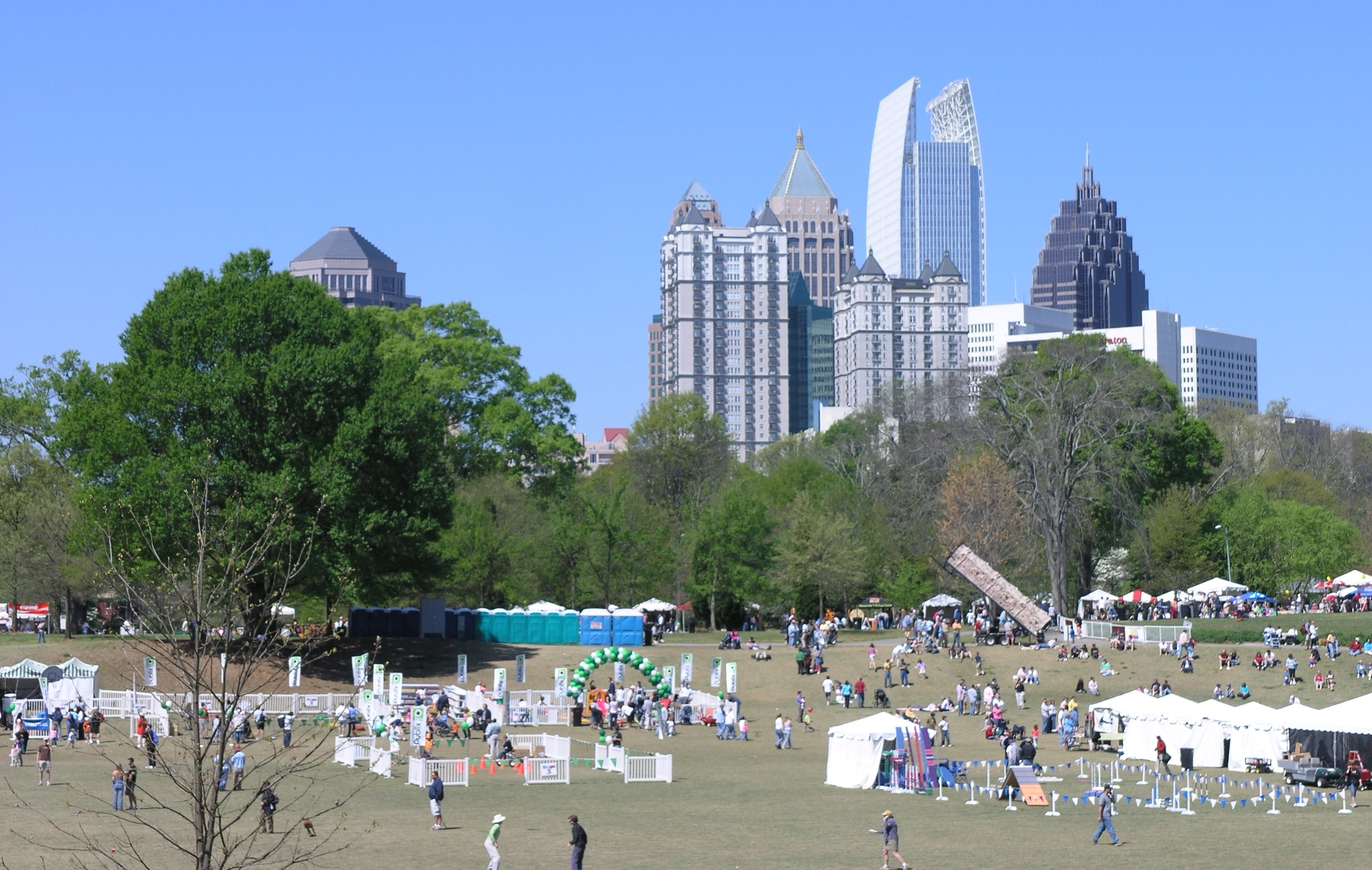 Photo taken in Atlanta area